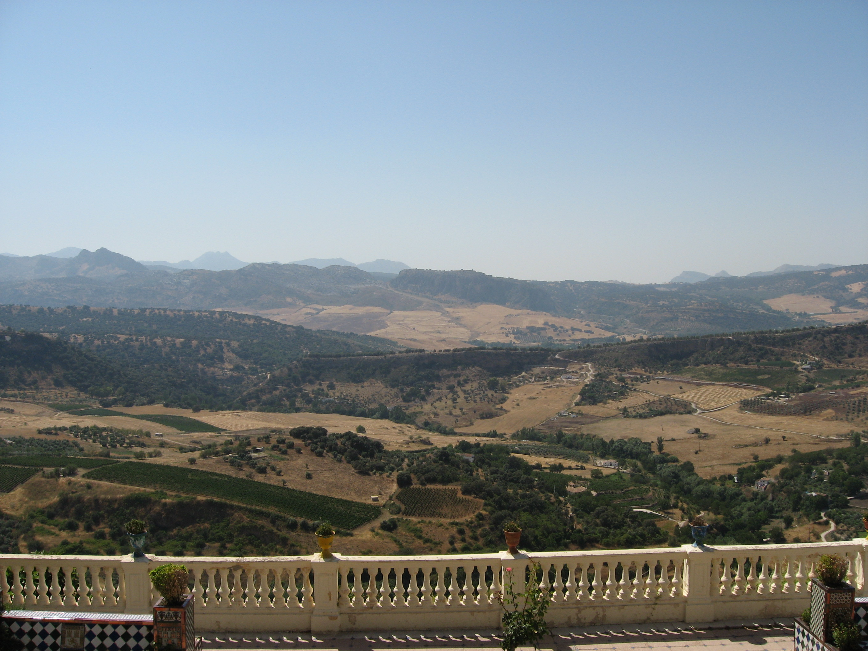 A view of the landscape surrounding Ronda, Málaga (Spain).